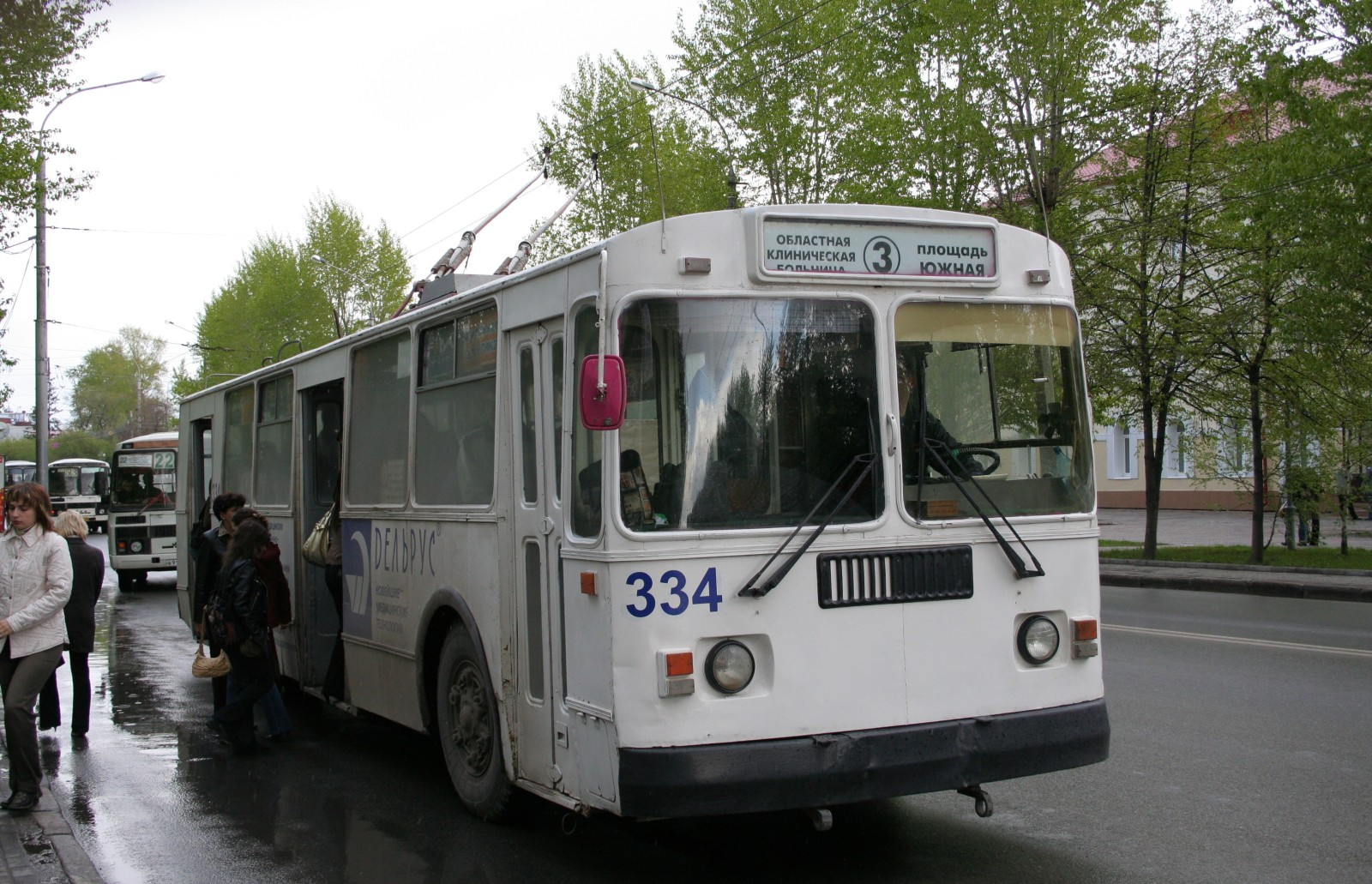 Tomsk trolleybus ZiU-682G No. 334 at the University bus stop.